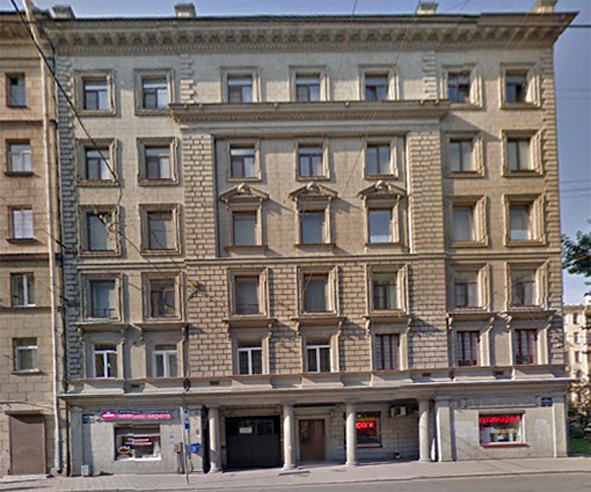 Apartment house № 10